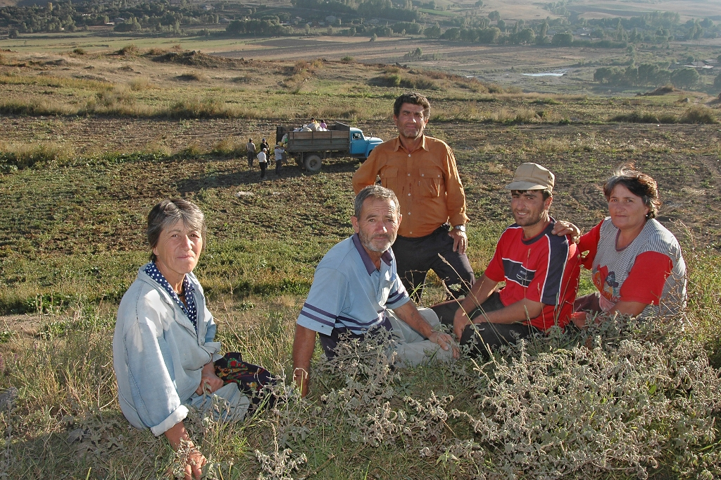 A picture of an Armenian farmer family after harvesting.